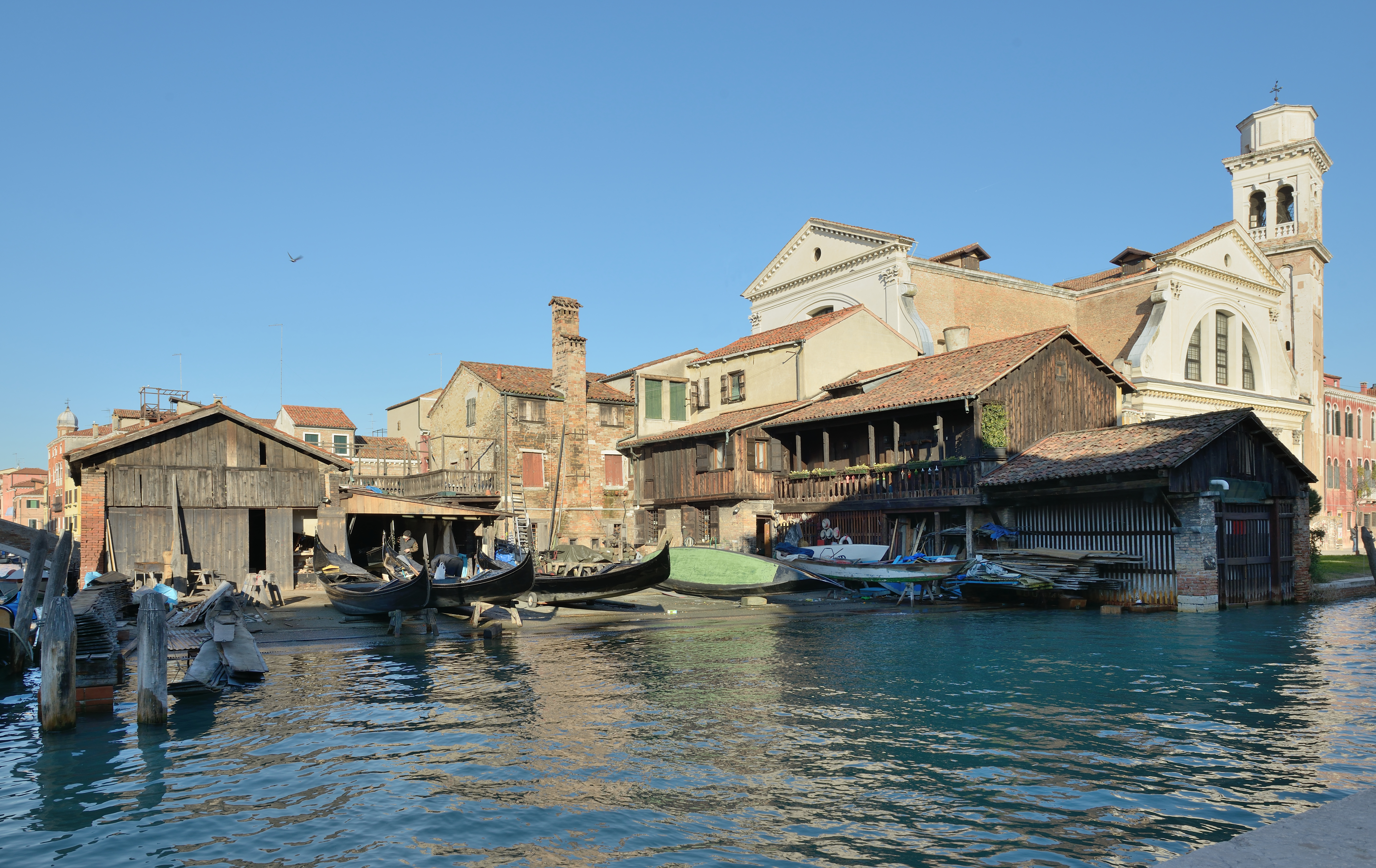 The squero of San Trovaso in Venice. In the background the church of San Trovaso